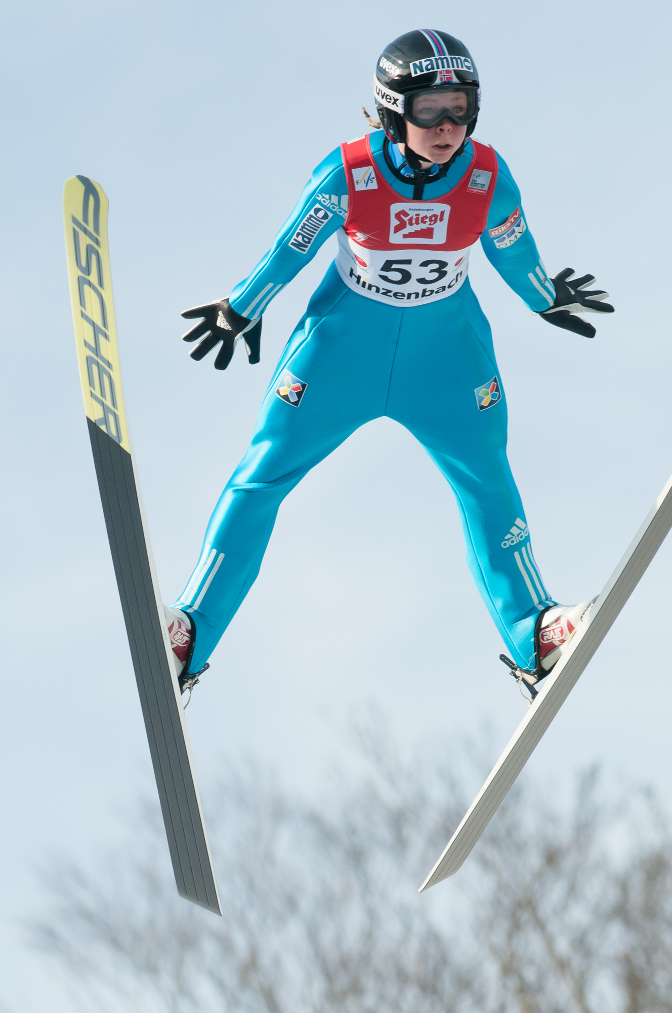 FIS Ski Jumping World Cup Ladies Hinzenbach 2016-02-07